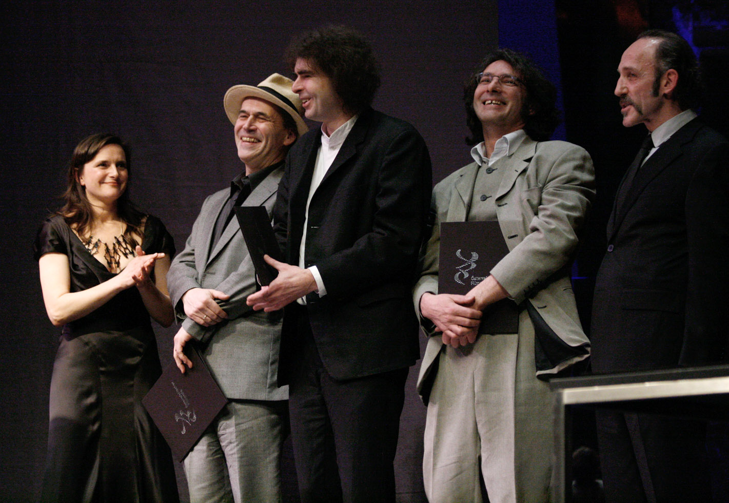 The Kollegium Kalksburg (Best Film Score) with Barbara Albert and Karl Markovics at the Austrian Film Awards 2011 at the Odeon theater in Vienna.